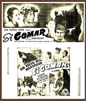 This is the film poster for the 1941 film Si Gomar.